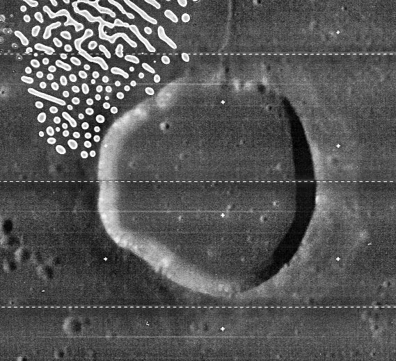 Maclear lunar crater - Lunar Orbiter IV image LO4-085-h2